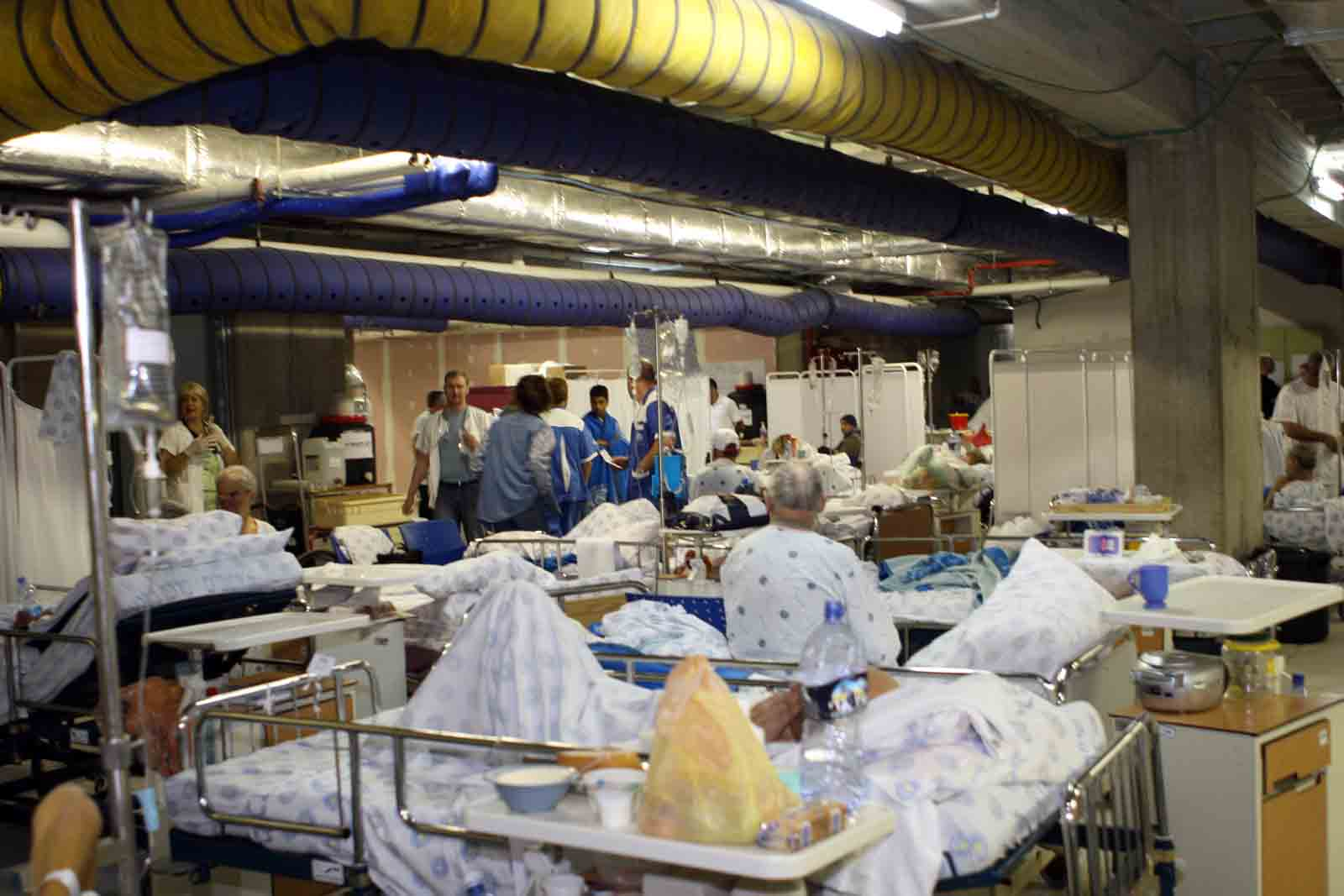 התמונה צולמה ב7.8.2006מרתף בית החולים במסגרת מלחמת לבנון השניה המוסב למחלקת אשפוז תת קרקעית.